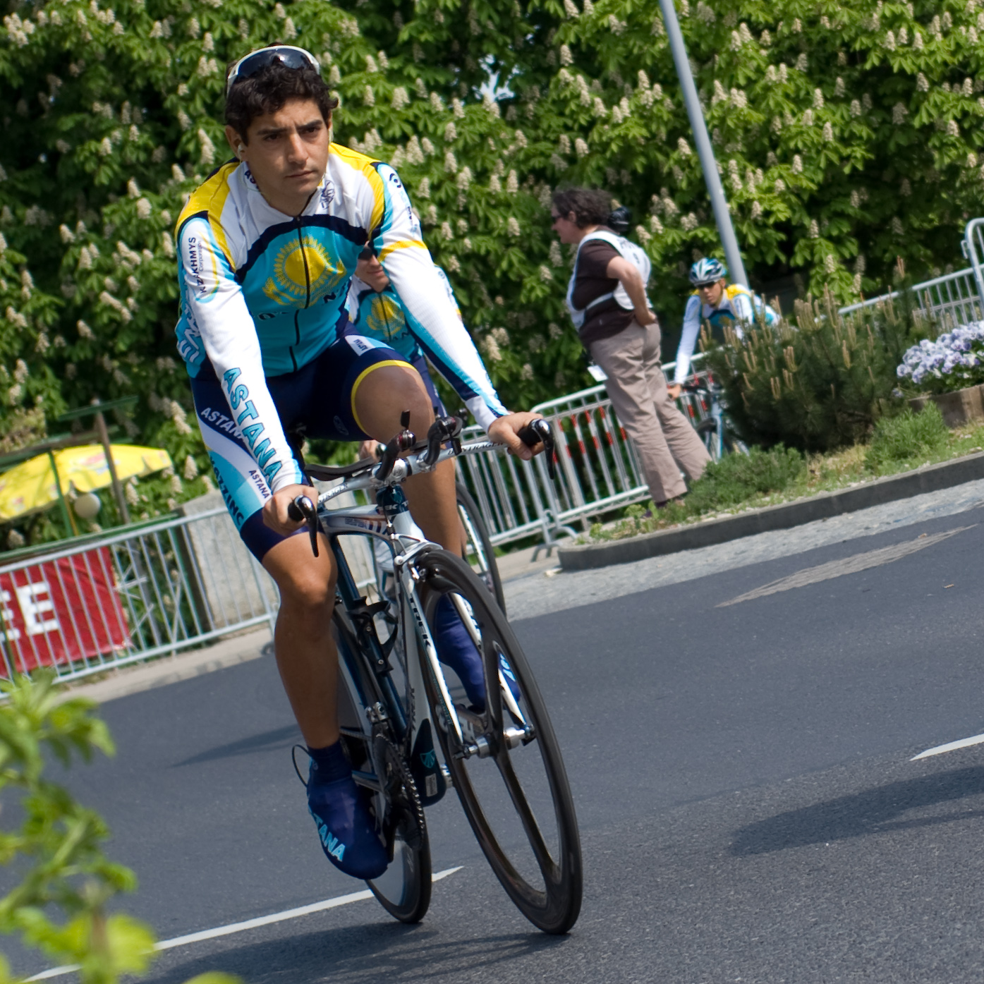 Jesús Hernández, Tour de Romandie 2009 - 3rd stage - team time trial